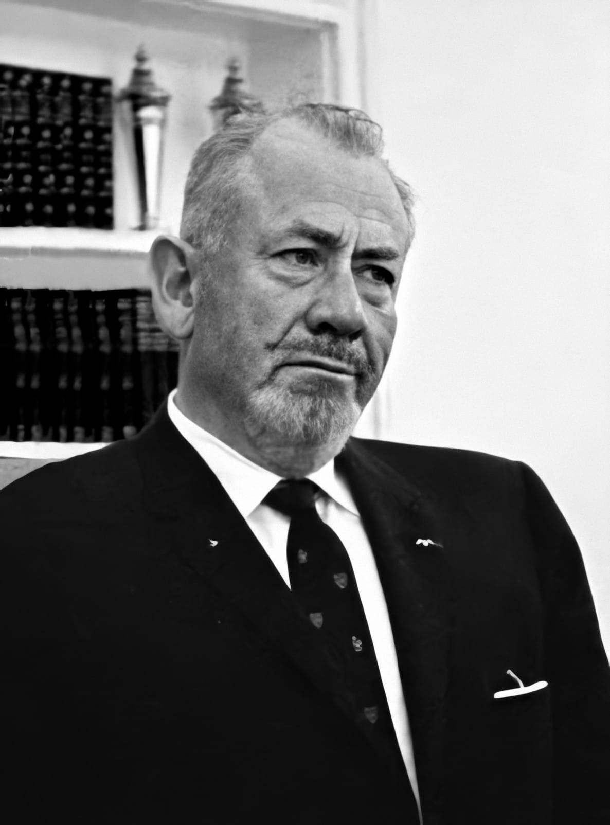 John Steinbeck visits LBJ at the oval office in the White House. In the original photo, to his left is Jon Steinbeck, his son shaking hands with LBJ between assignments in Vietnam and the White House.